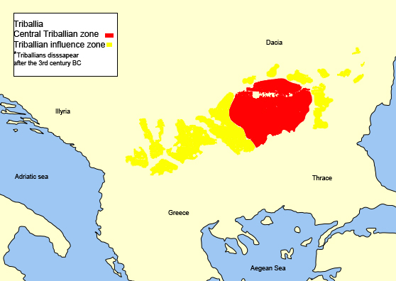 Map of the Triballi influence zones